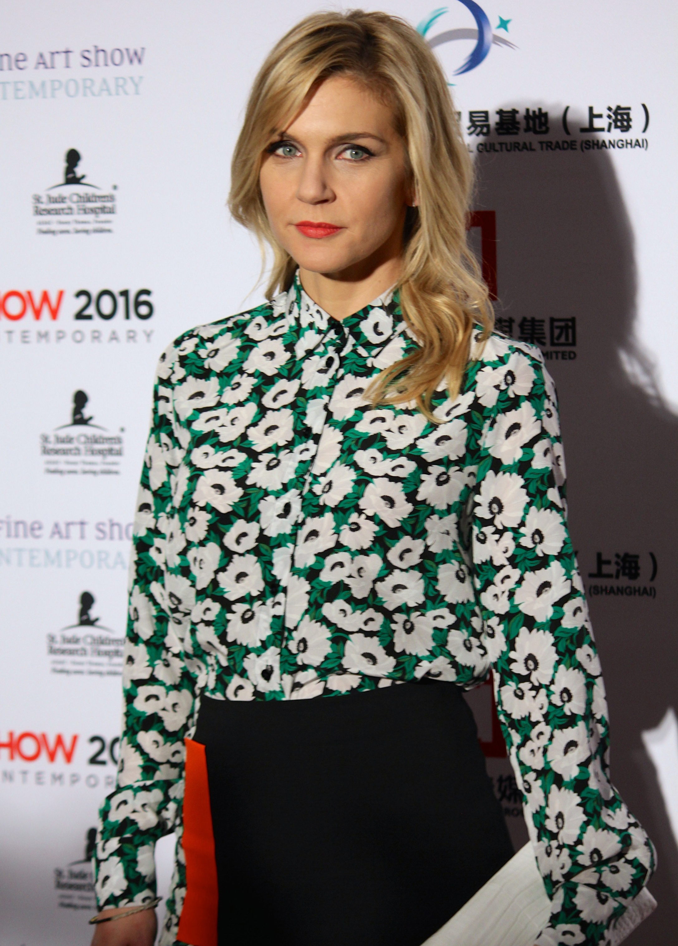 Rhea Seehorn at the LA Art Show 2016 Red Carpet on January 27th at the Los Angeles Convention Center.